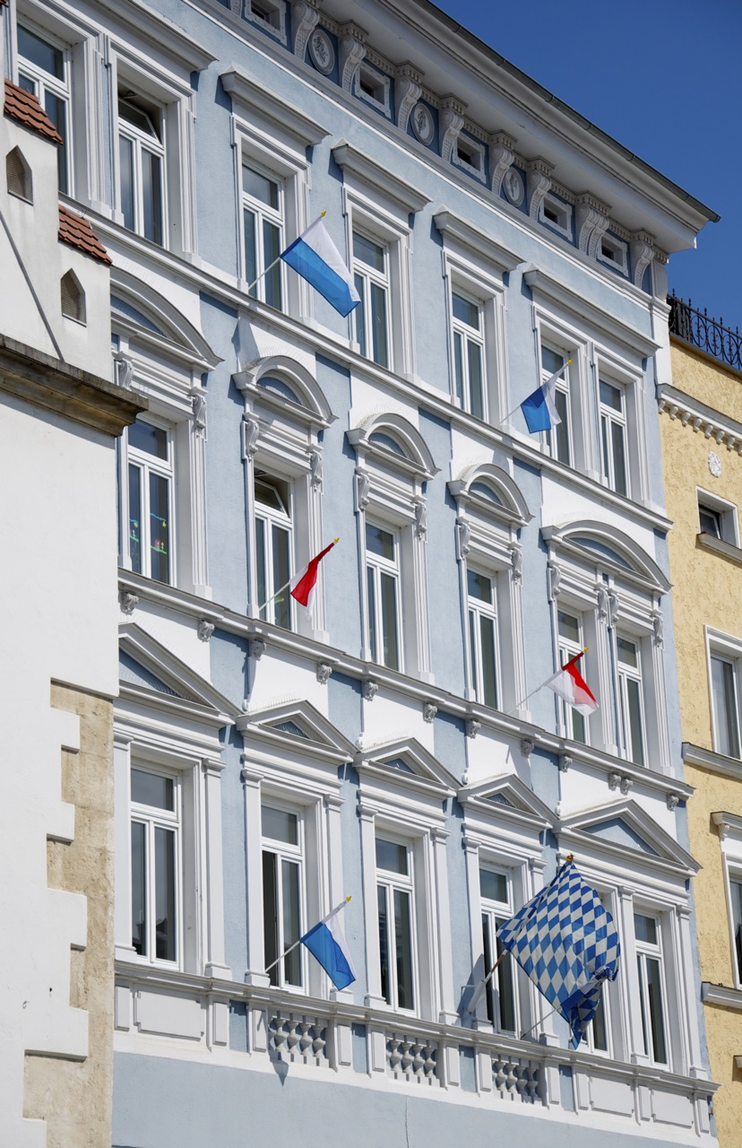 Jewelry houses in the town square for Straubinger Gäubodenvolkfest-time.